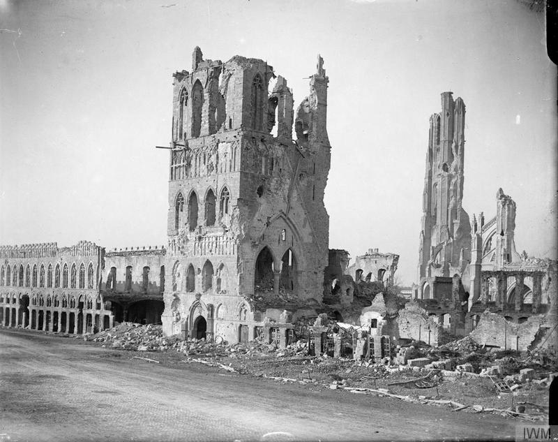 Destruction on the Western Front, 1914-1918 Ruins of the Cloth Hall at Ypres, 22 November 1916.